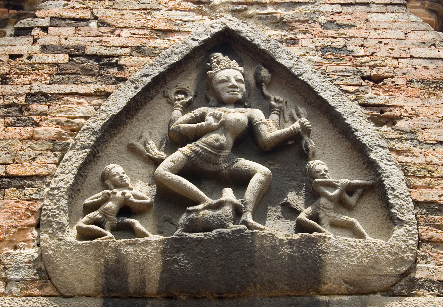 Durga ornament on the main Tower in Category:Po Nagar towers in Nha Trang